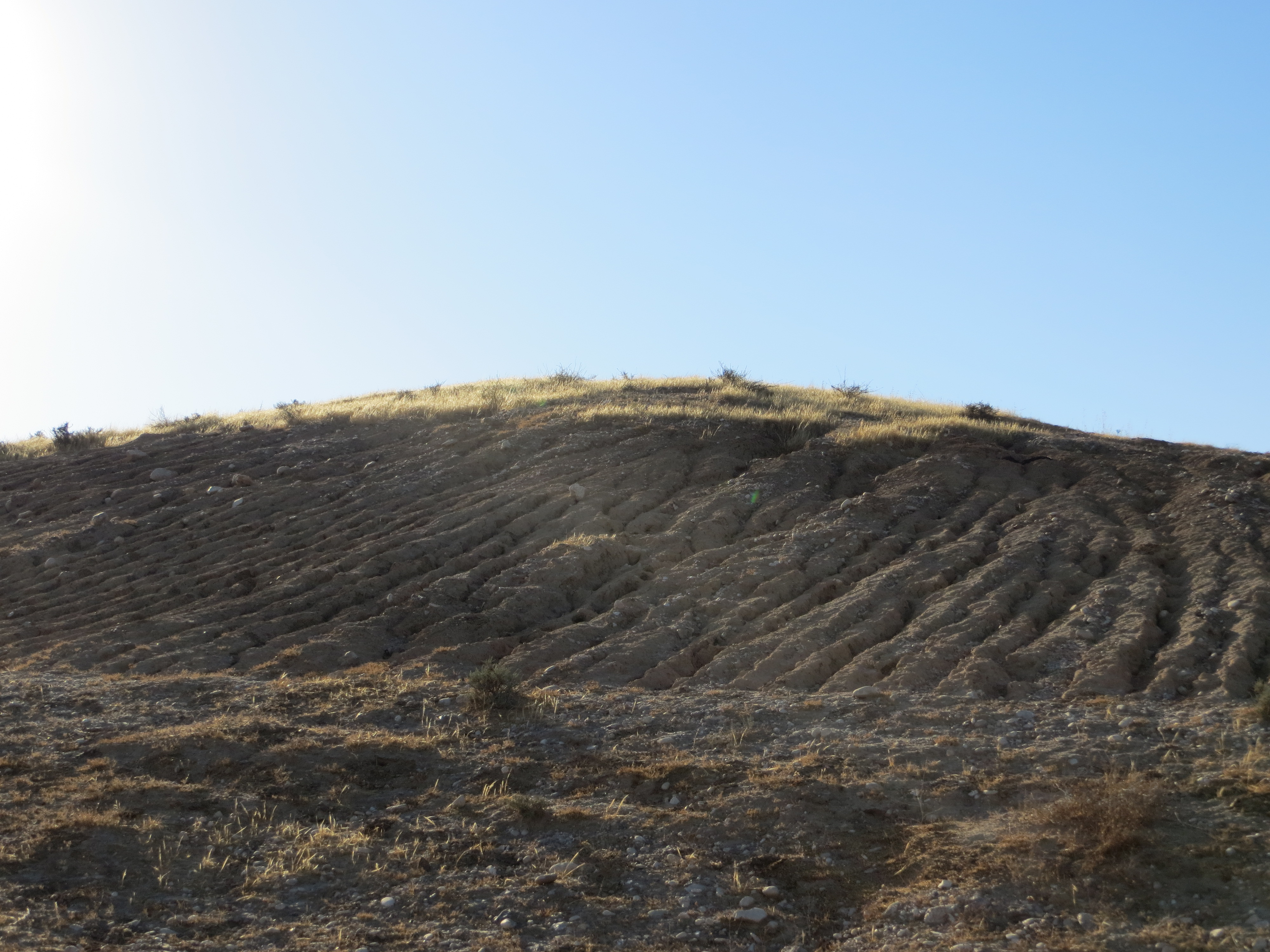 rills, northern Negev, Isarel.